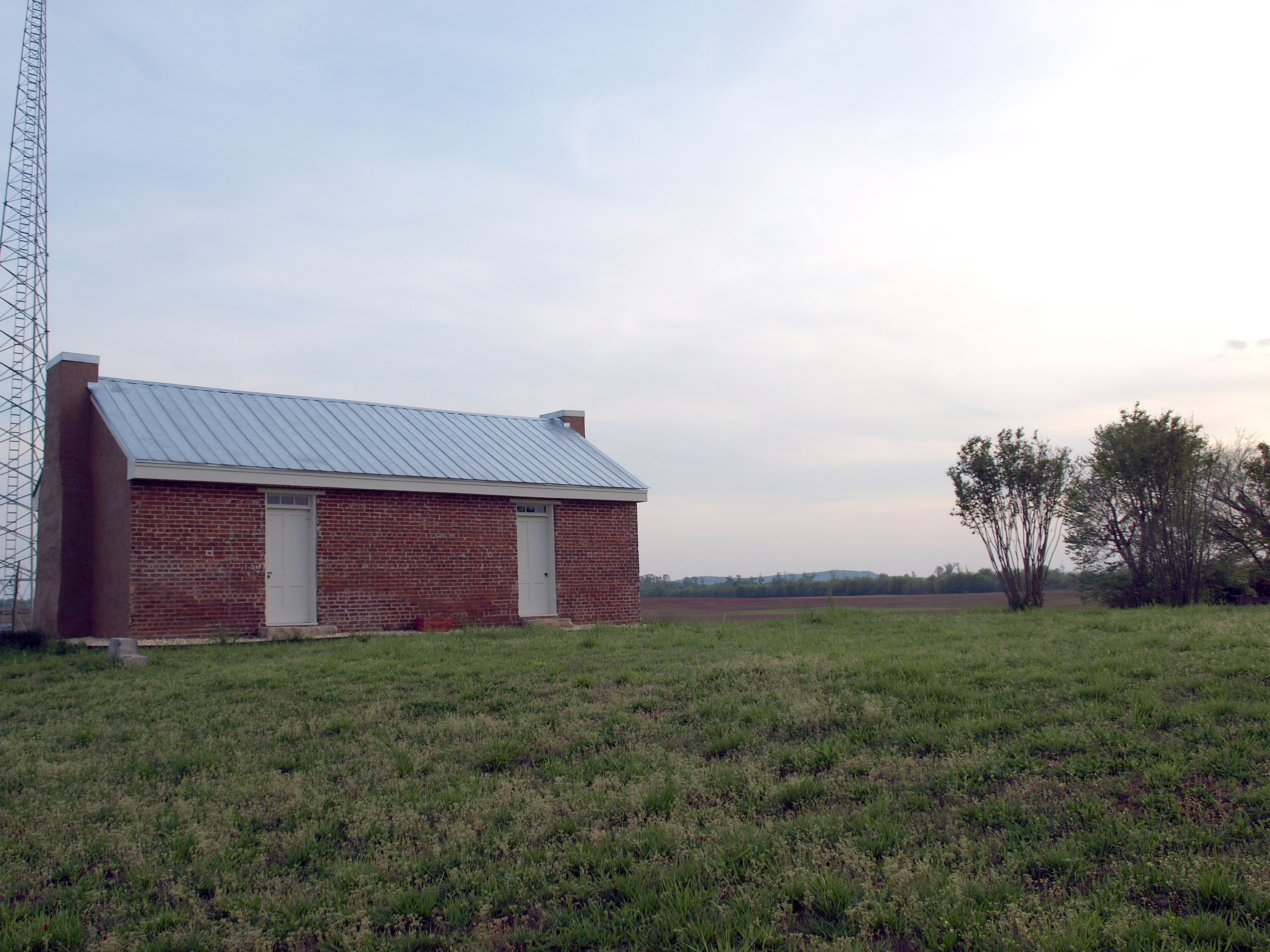 The Boxwood Plantation Slave Quarter near Trinity, Alabama, listed on the National Register of Historic Places.